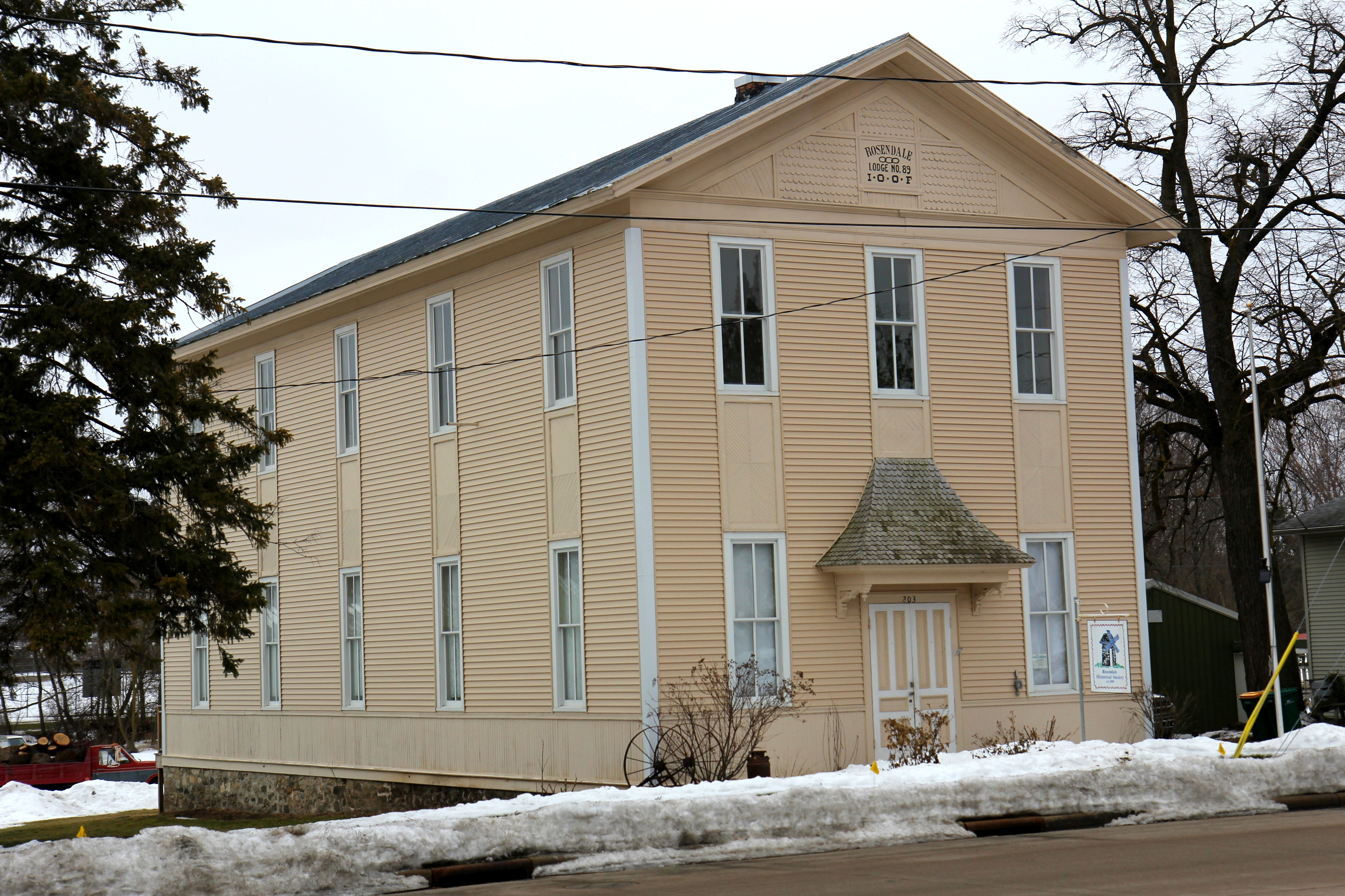 The Independent Order of Odd Fellows Lodge No. 89 along WIS 23 in Rosendale, Wisconsin. It is listed on the National Register of Historic Places.